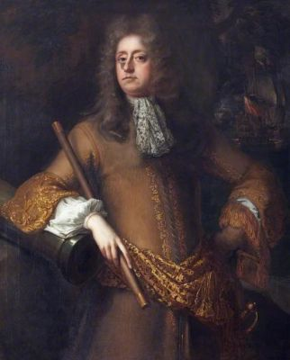 Admiral Arthur Herbert, 1st Earl of Torrington by John Closterman